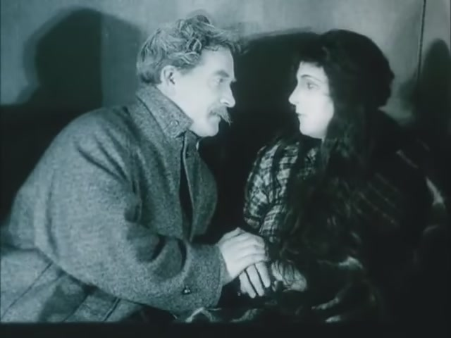 Image extracted from Le Brasier ardent, 1923 silent movie of France